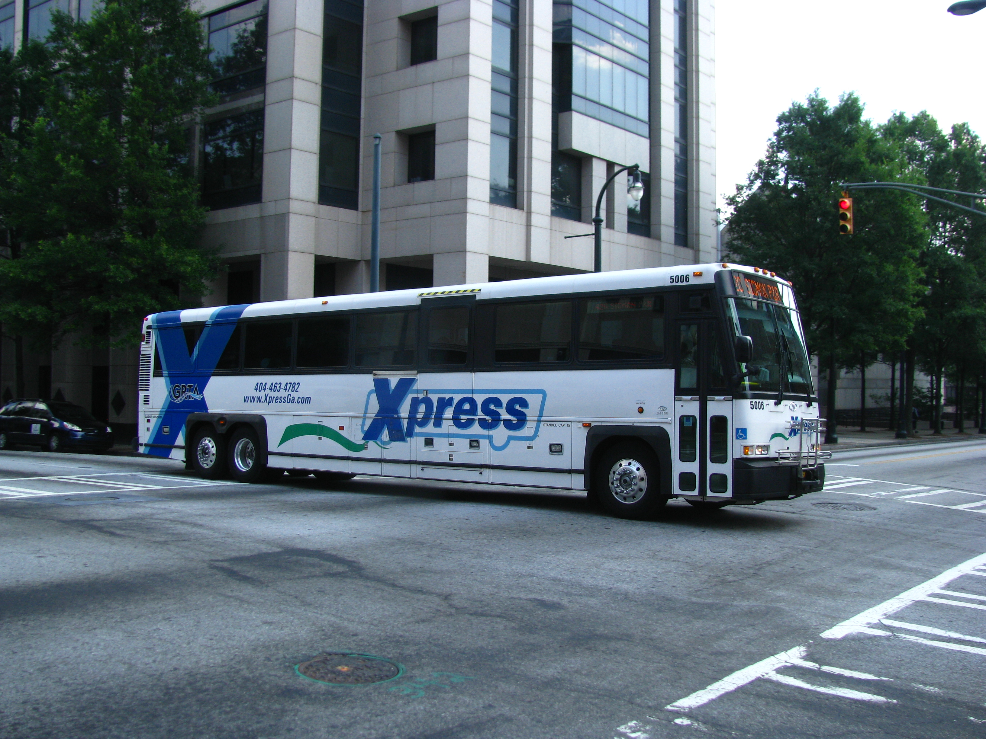 Regular GRTA roller